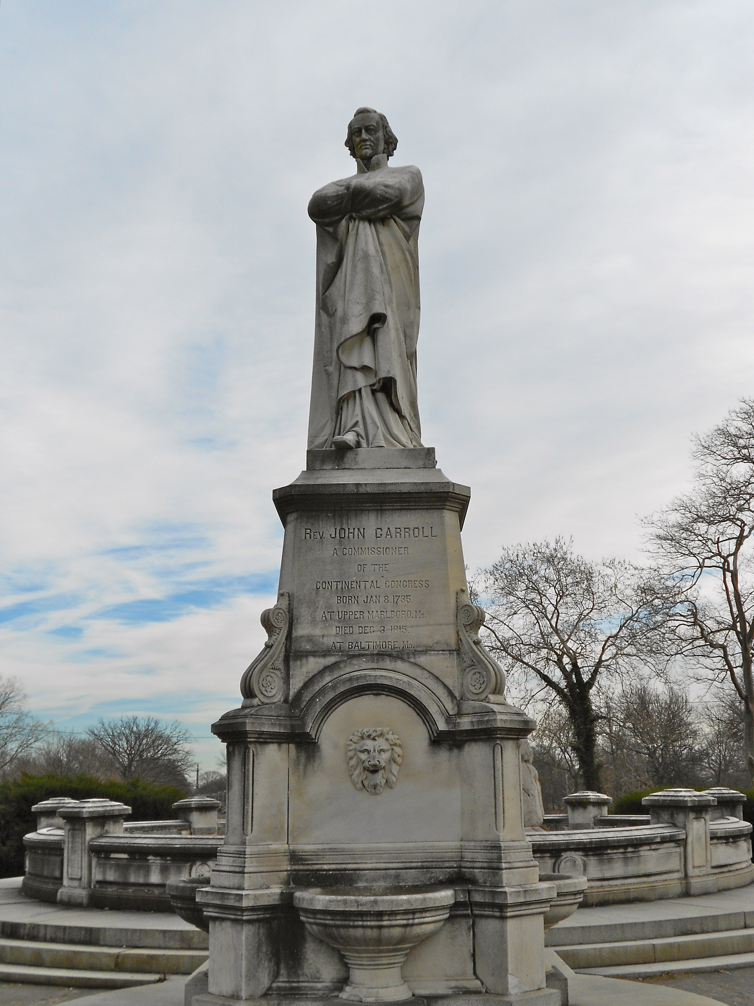 Sculpture of the Rev. John Carroll, part of the Catholic Total Abstinence Fountain in Fairmount Park, Philadelphia. Fountain constructed in 1876, sculptor Herman Kirn at Avenue of the Republic & States Street. Marble sculptures with granite bases, Smithsonion reference IAS 75009303